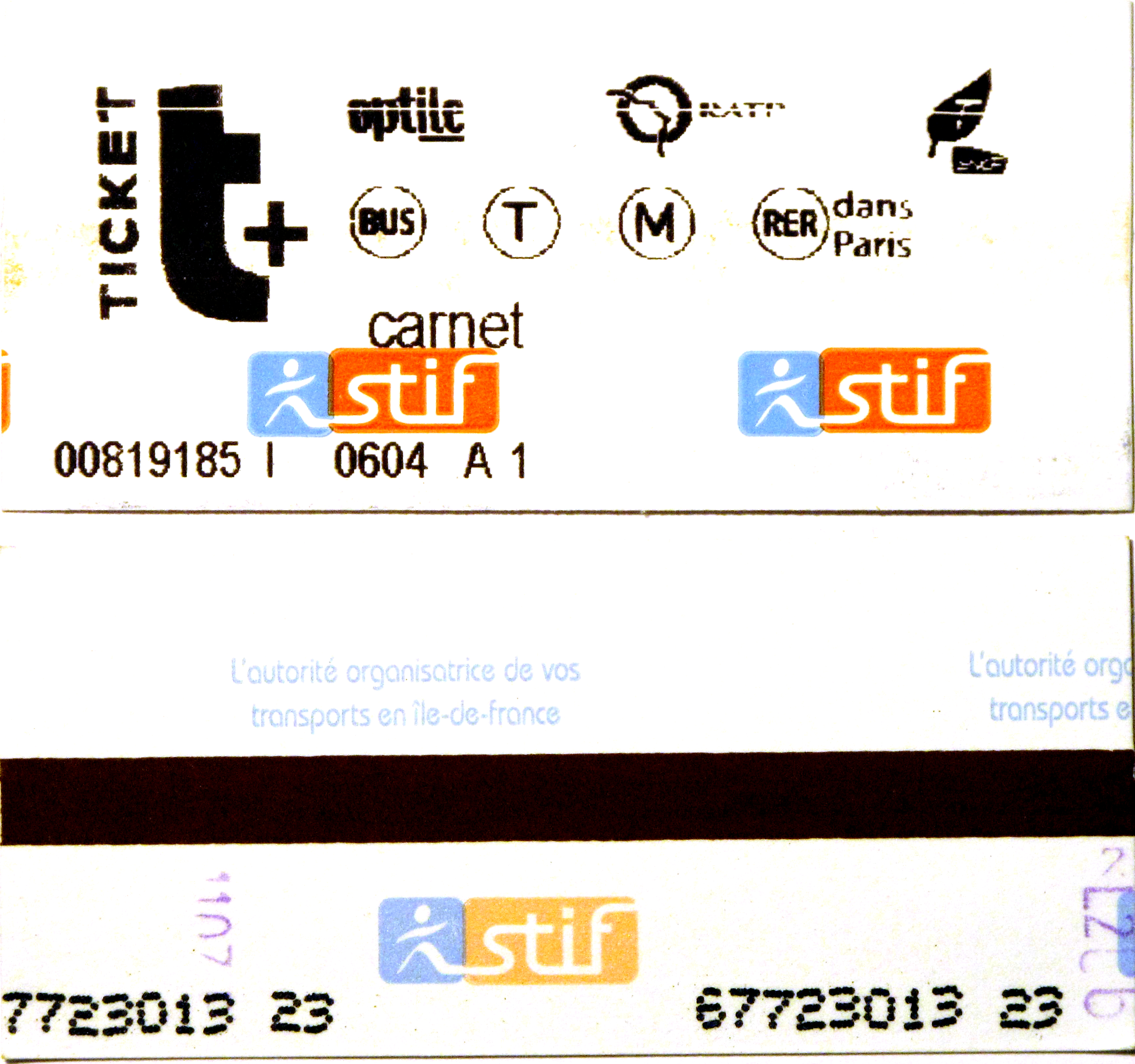 Recto and verso of Paris metro ticket